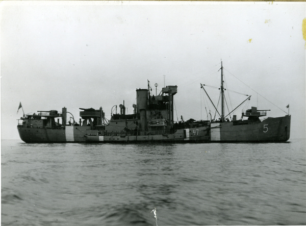 Swedish war ship Warun.